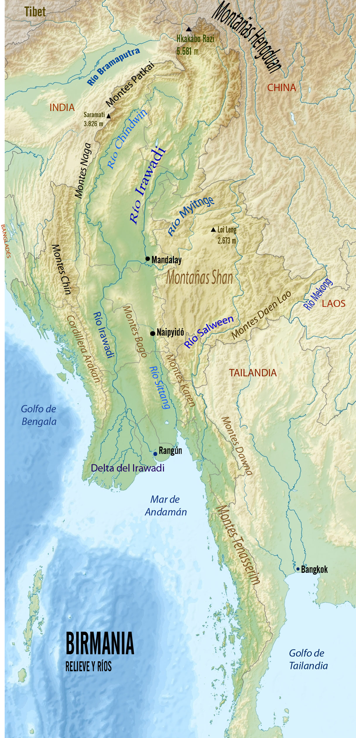 Rivers and mountains of Myanmar